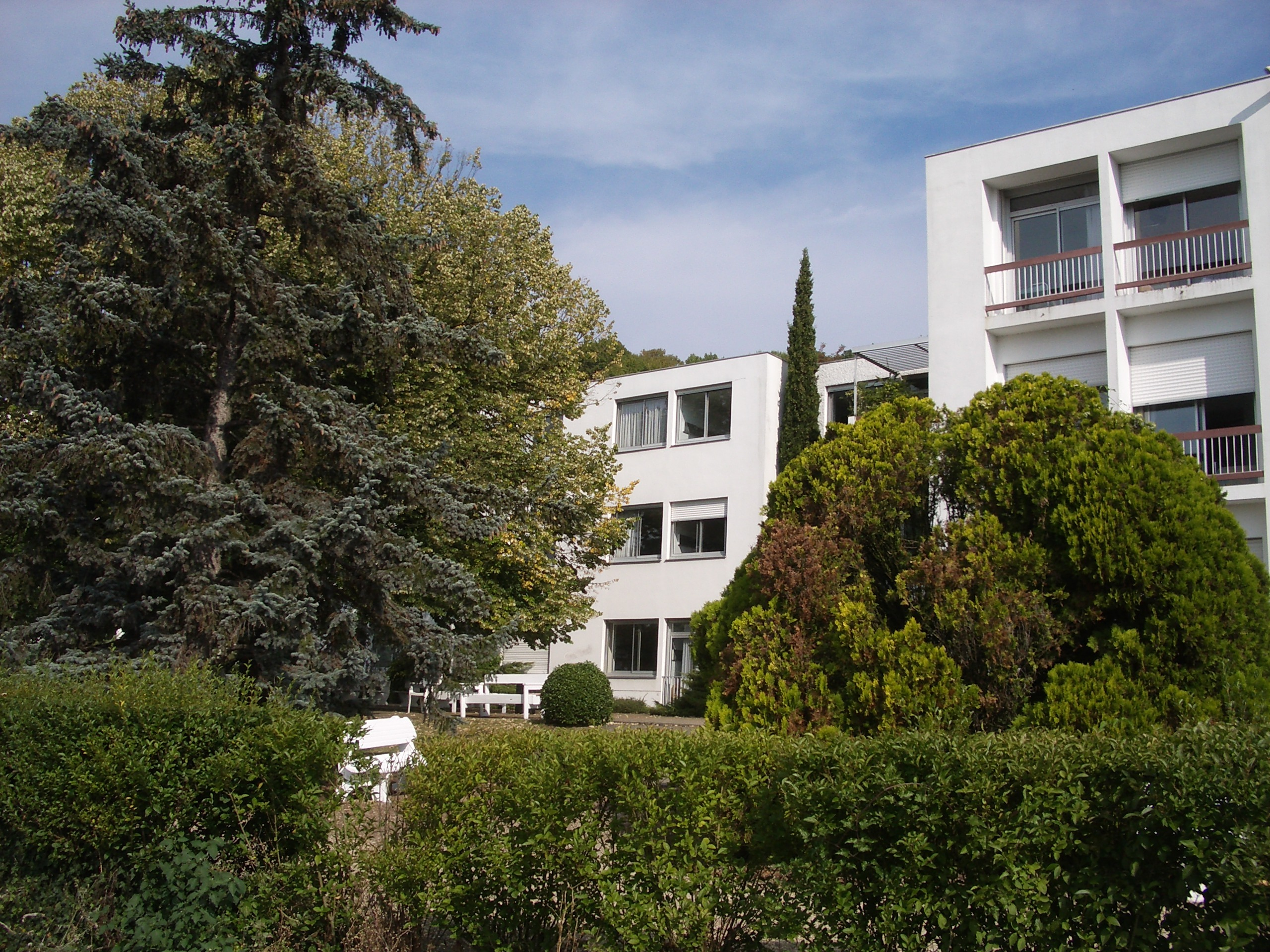 Centre cardiologique d'Evêquemont dans les Yvelines, France